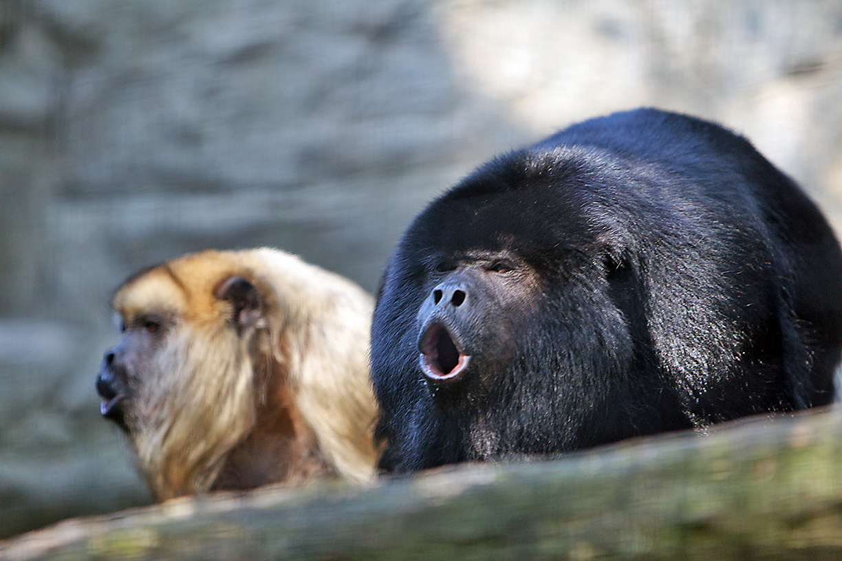 these guys (well, guy and lady friend) are unbelievably loud. of course with a name like howler monkey you'd have to be :)